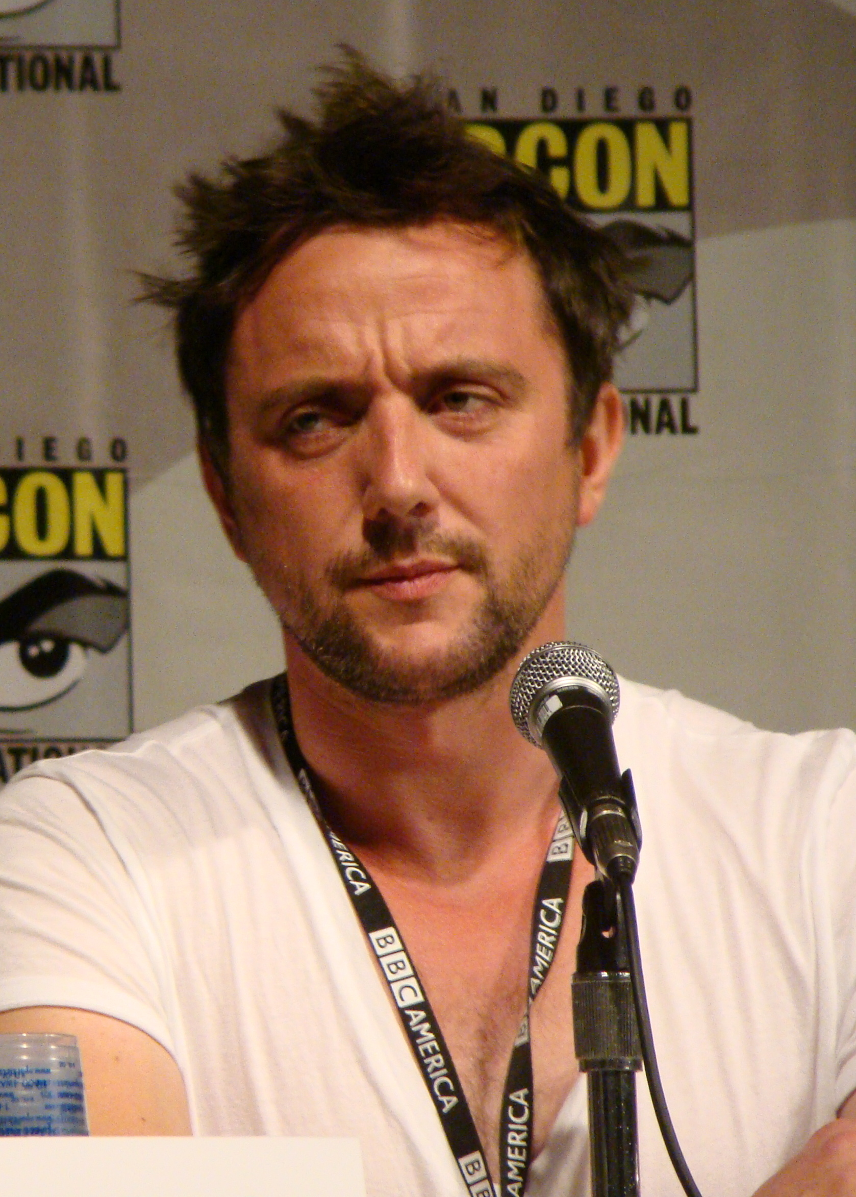 Peter Serafinowicz at the July 22, 2010 Look Around You Comic-Con panel.